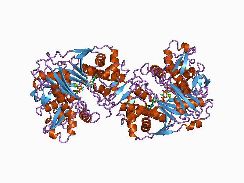 Cartoon representation of the molecular structure of protein registered with 1bwf code.